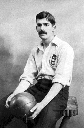 English football player, Charles Wreford Brown, with the England national team jersey.